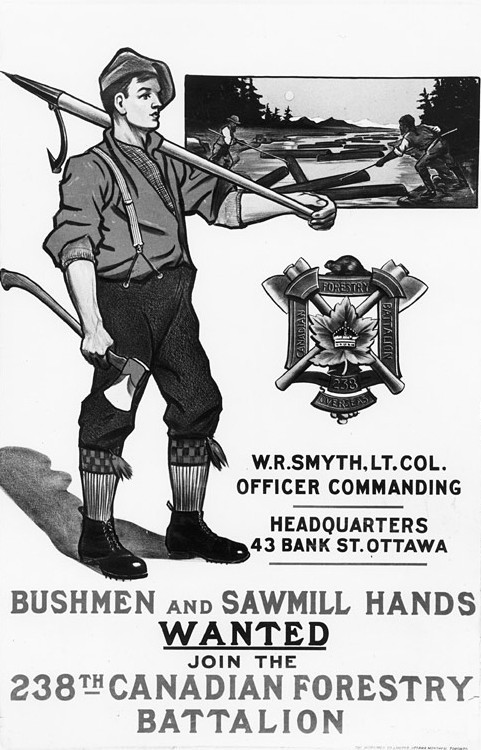 Poster for the Canadian Forestry Battalion. "Bushmen and sawmill hands wanted". Ottawa, Canada. The war effort desperately needed timber for a variety of uses, including the building of bomb-proof dugouts in the trenches and timber ties for the rail lines that transported train-loads of supplies. During World War I, 22,000 members of the Canadian Forestry Corps were turning trees into timber for the Allied war effort. Most of the men were older than the C.E.F. average and had been turned down for service, but could use their special skills through the Canadian Forestry Corps.